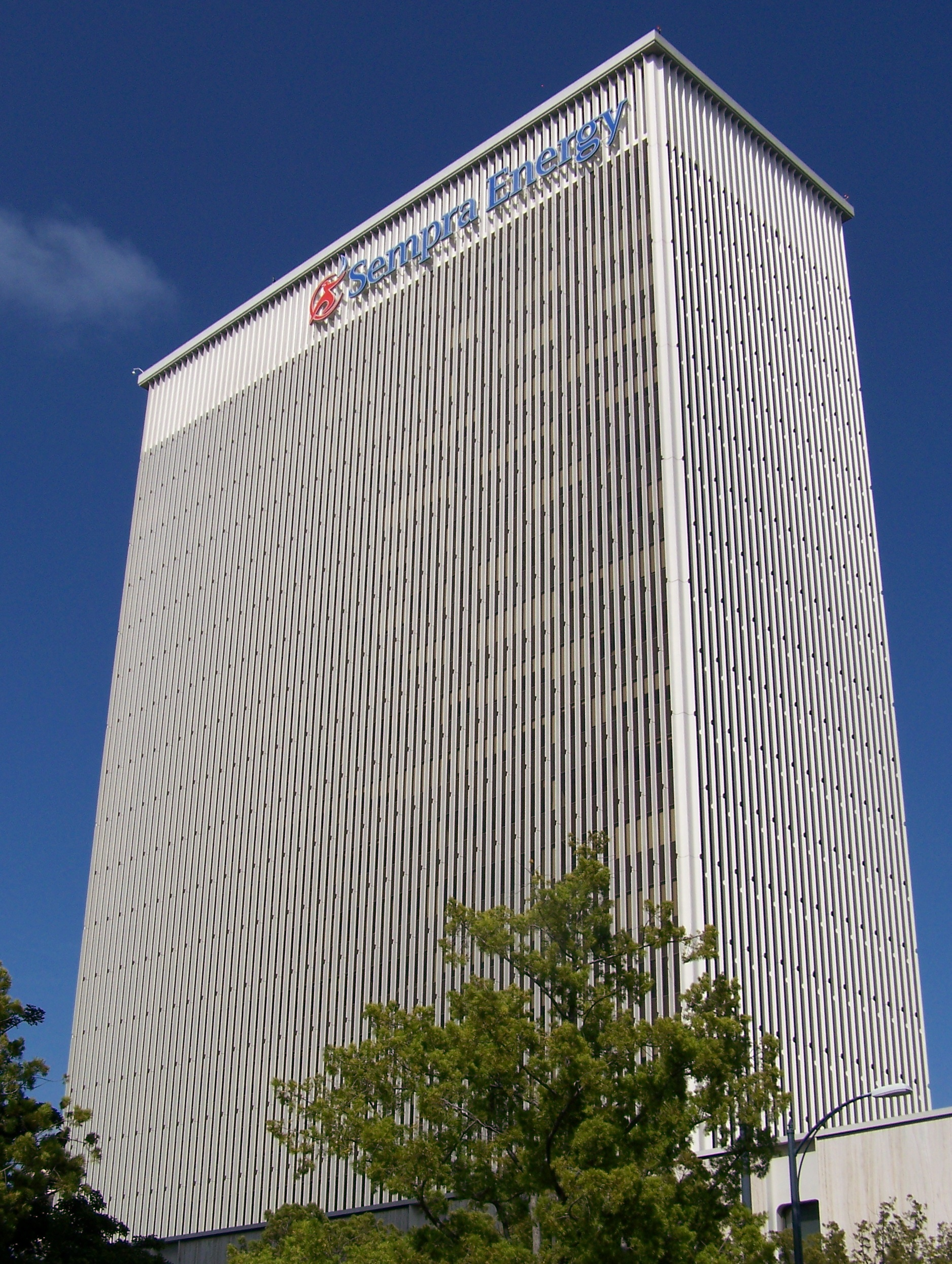 Sempra Energy Building skyscraper in San Diego, California. Construction was completed in 1968.